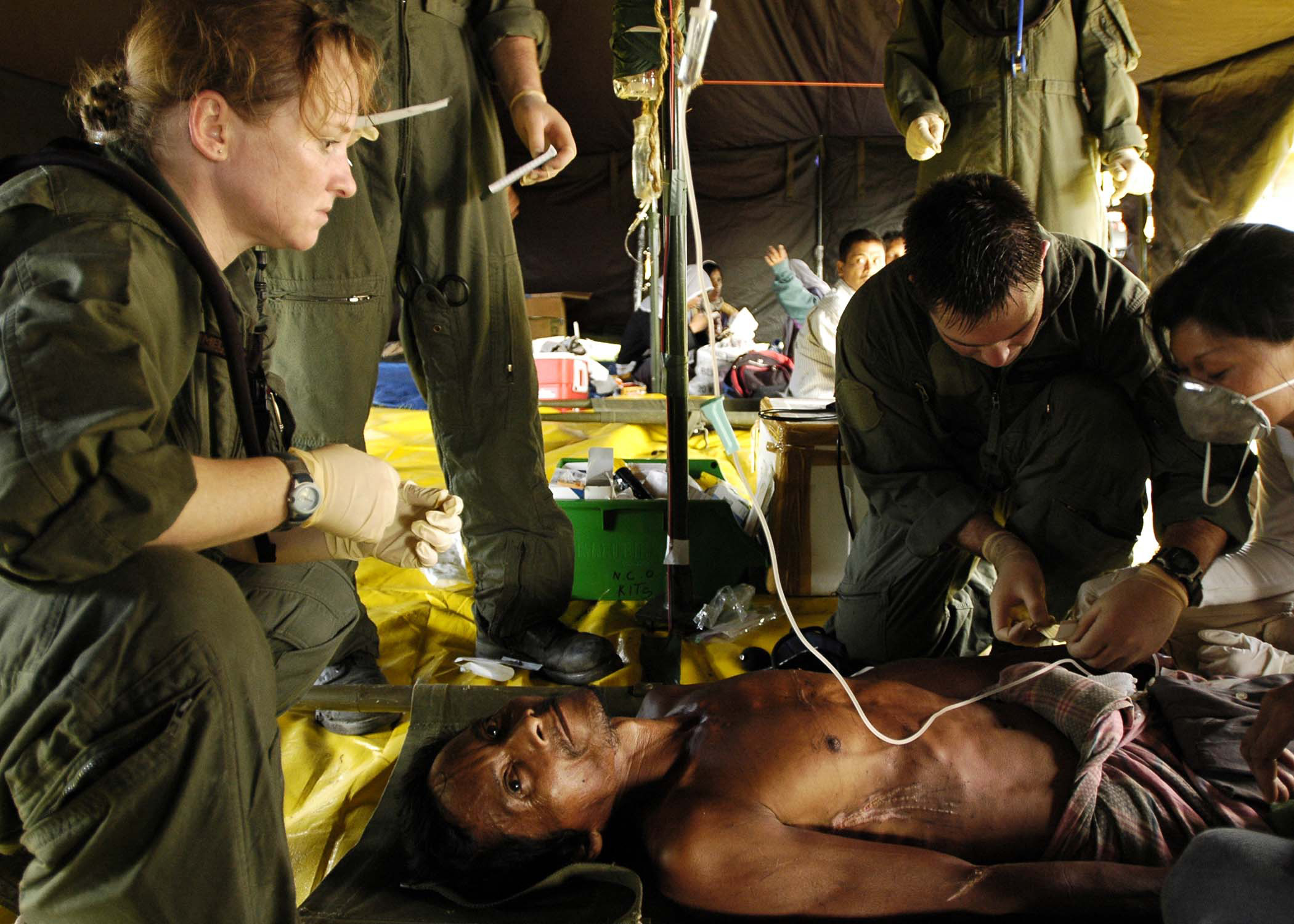 Navy Petty Officer 1st class Rebecca McClung (left) and Chief Petty Officer Jim Jones (right) tend to an injured Indonesian man who was medically evacuated from a coastal village on the island of Sumatra, Indonesia, on Jan. 3, 2005. Medical teams from the aircraft carrier USS Abraham Lincoln (CVN 72) and the International Organization for Migration have set-up a triage site on Sultan Iskandar Muda Air Force Base, in Banda Aceh, Sumatra. The two teams are working together with members of the Australian Air Force to provide initial medical care to victims of tsunami-stricken coastal regions. The Abraham Lincoln Carrier Strike Group is currently operating in the Indian Ocean off the coasts of Indonesia and Thailand as part of Operation Unified Assistance.